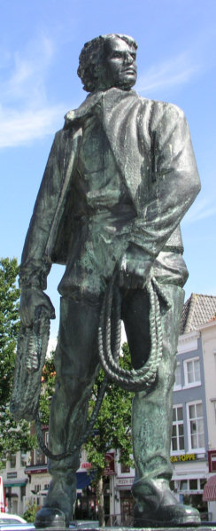 Statue of Frans Naerebout in Vlissingen (NL)